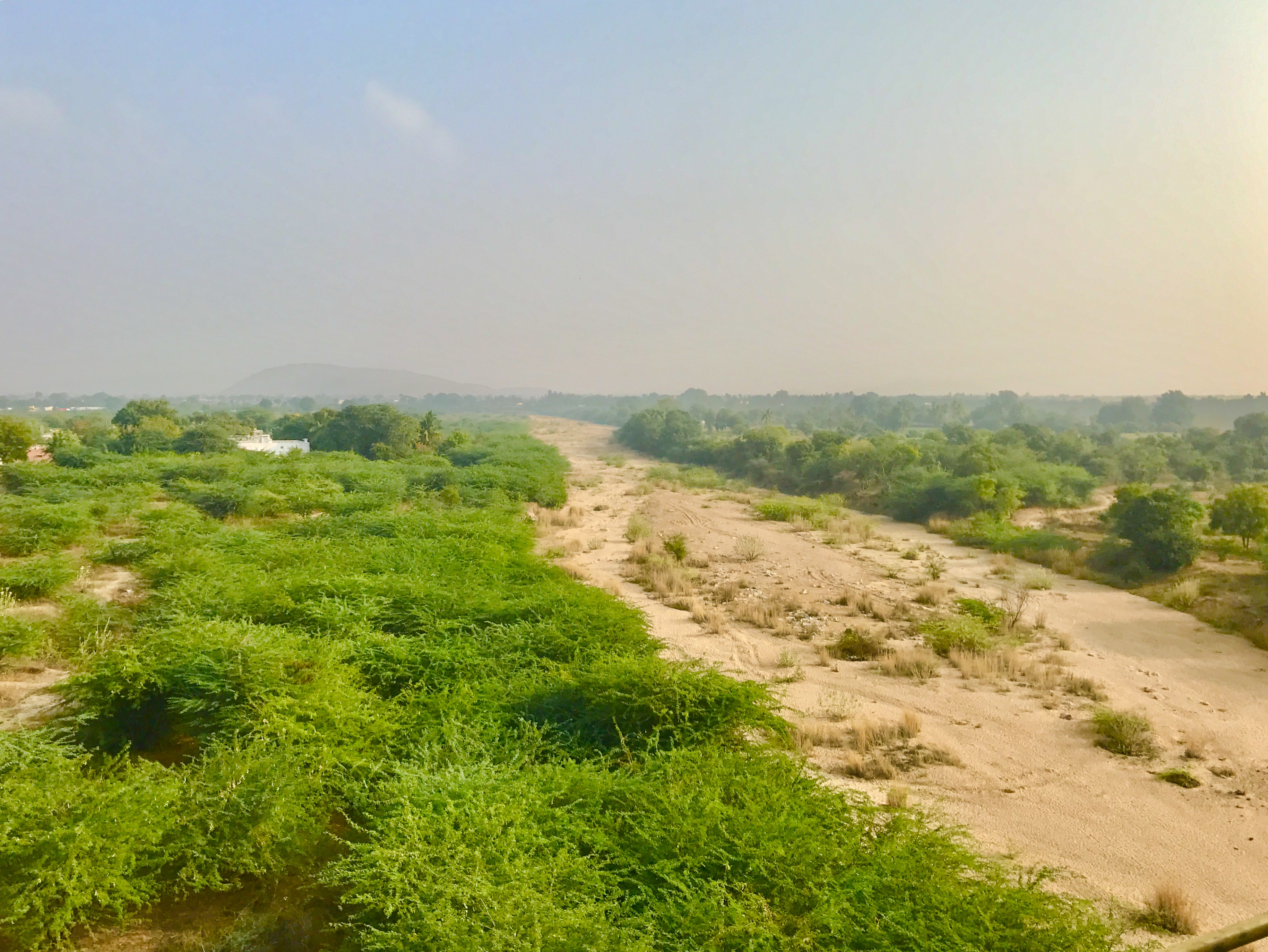 Penna River near Anantapuram